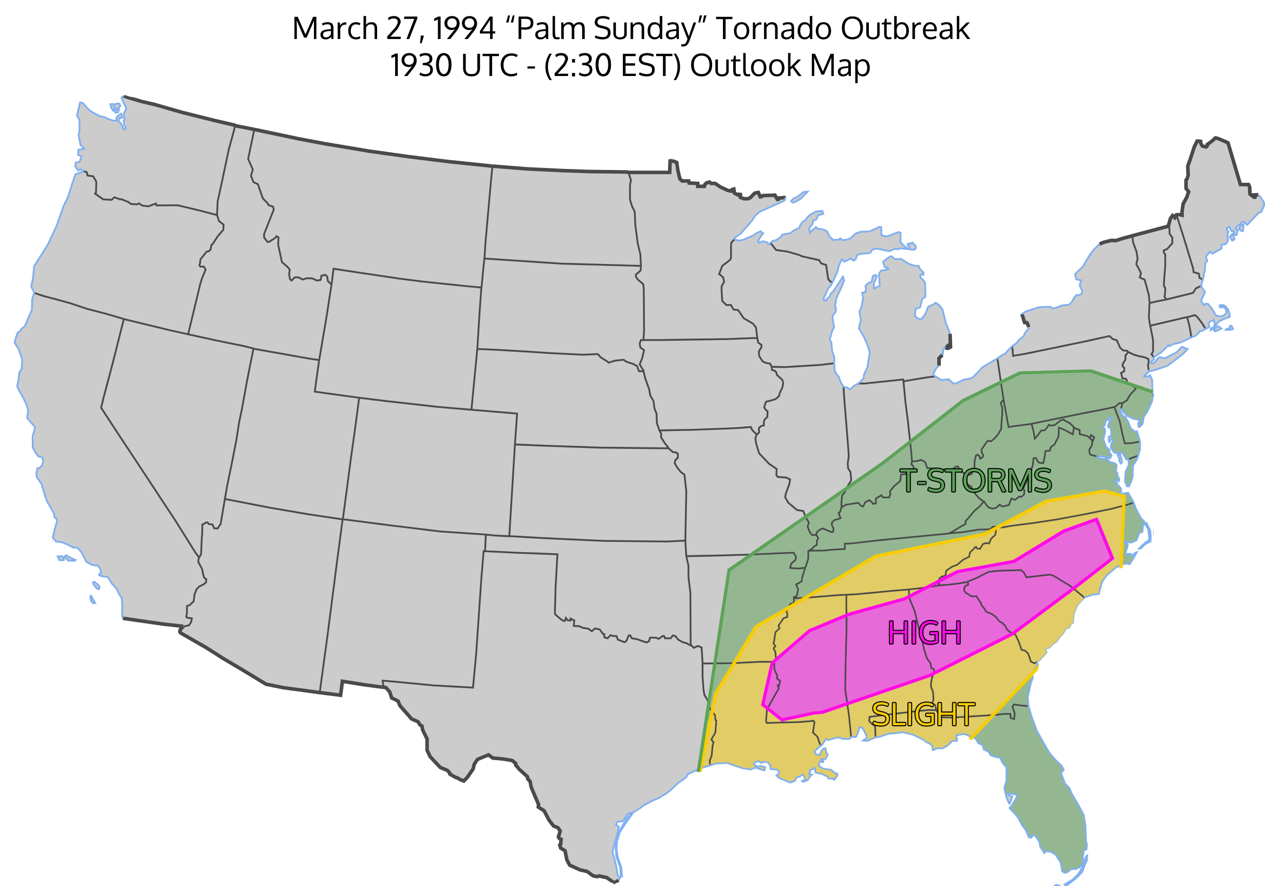 This is a recreation of a map of the outlook issued by the SPC on March 27, 1994. Created using Photoshop and this link